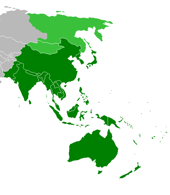 Map showing relevant countries within the Indo-Pacific region. The exact definition of the region varies.